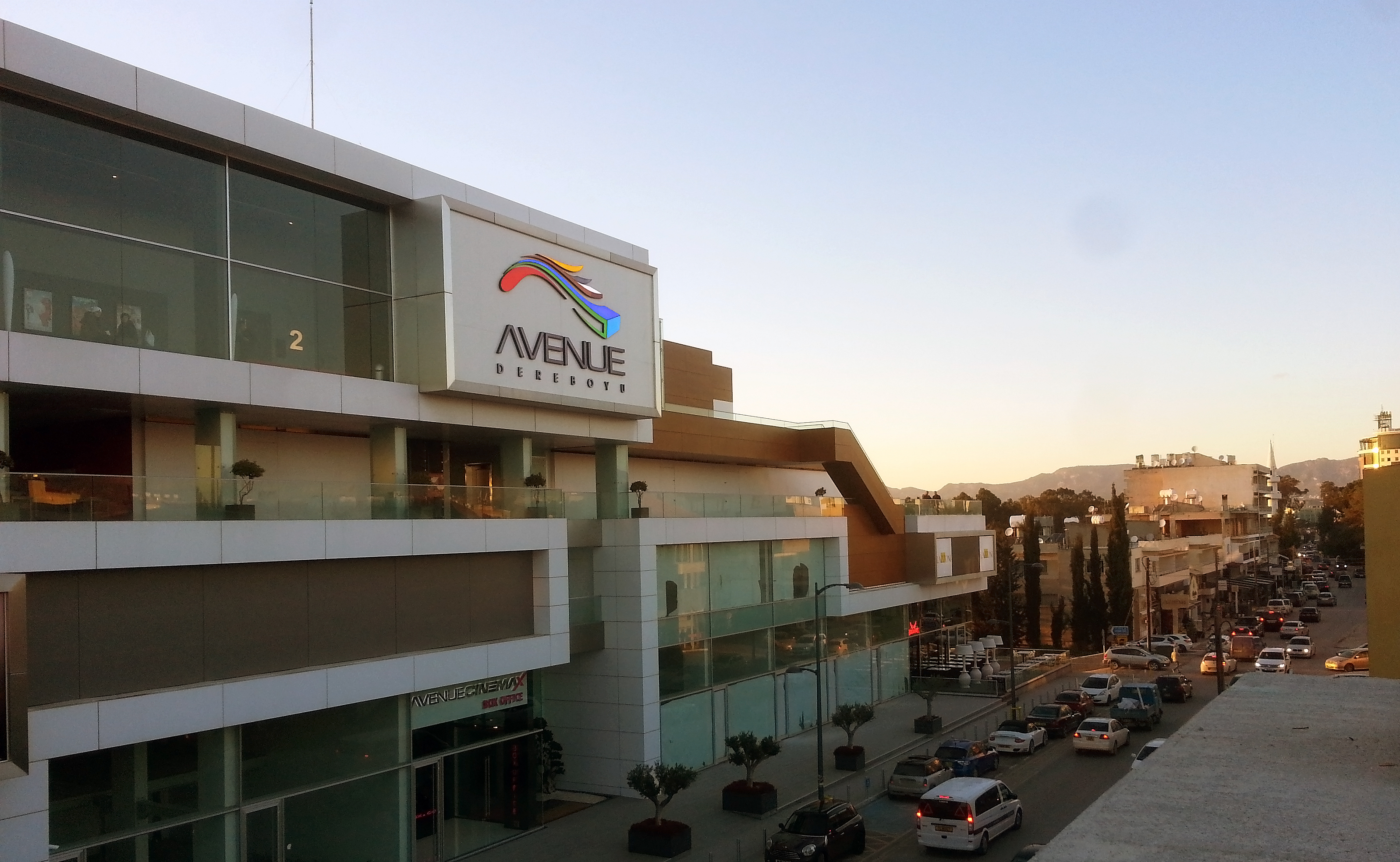 A new mall and the street with the Golden Tulip Hotel at the right in Dereboyu, North Nicosia